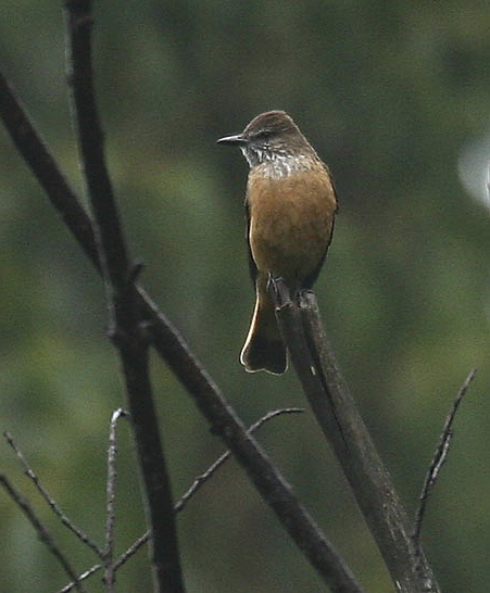 Streak-throated Bush-Tyrant (Myiotheretes striaticollis), south-west of Quito, Ecuador 3/24/2007